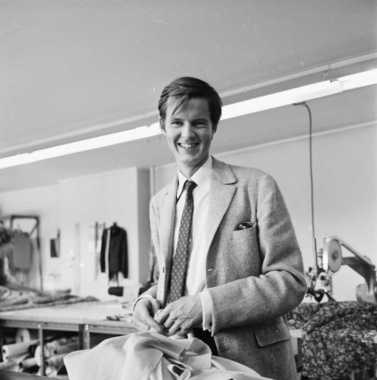 Per Spook (born 1939), Norwegian fashion designer. Photo by Rigmor Dahl Delphin in the collections of Oslo Museum via DigitaltMuseum.